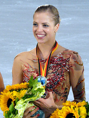 Carolina Kostner during the medal ceremony at the 2007 Nebelhorn Trophy.